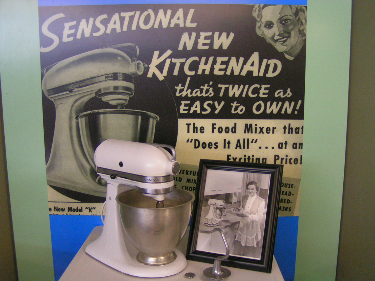 A KitchenAid Model K mixer and advertisement.